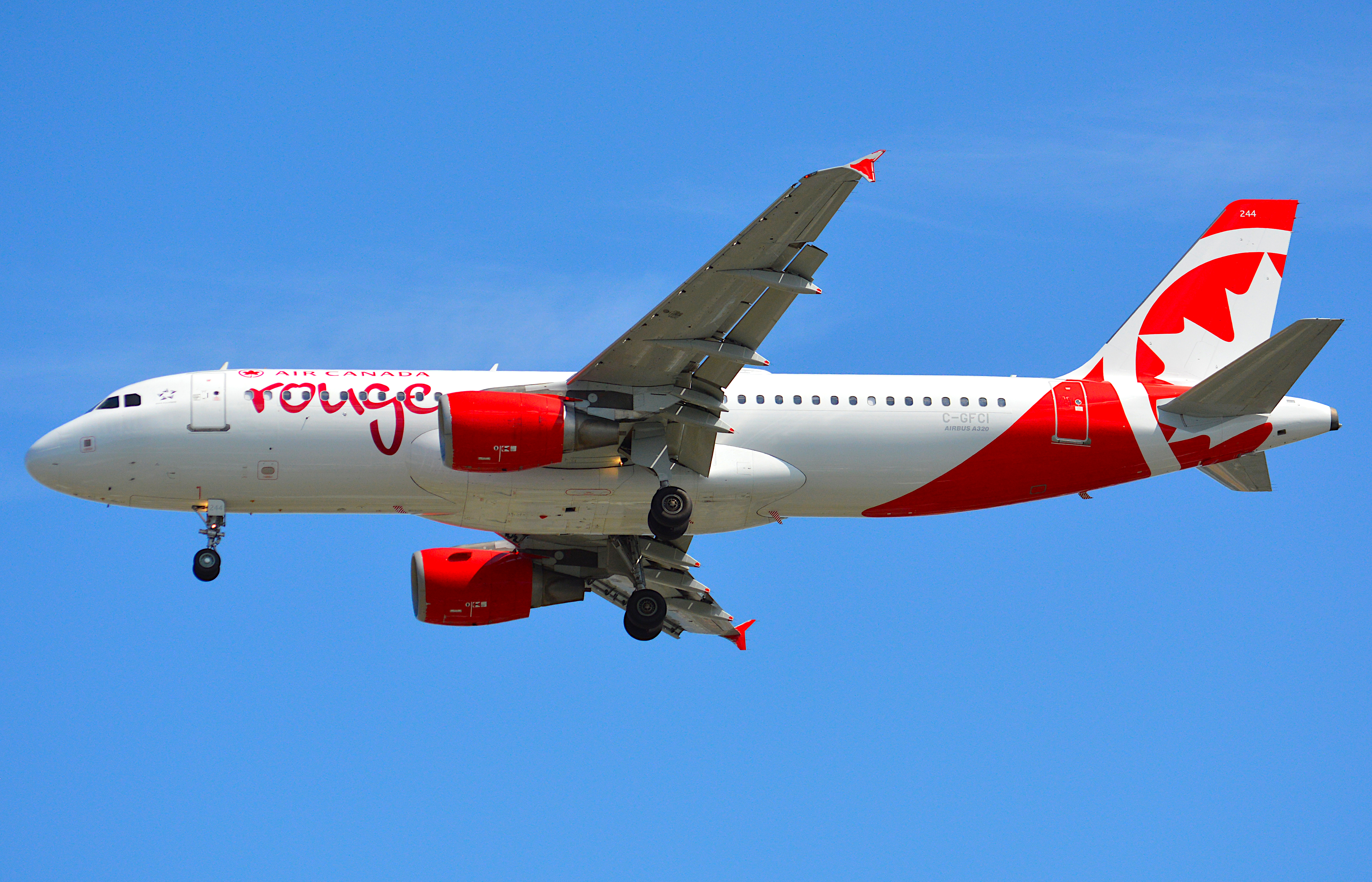 This is the first picture of an Air Canada Rouge A320 on Wikimedia! Air Canada Rouge Airbus A320ceo C-GFCI landing on runway 27, Victoria International Airport, July 24, 2019.